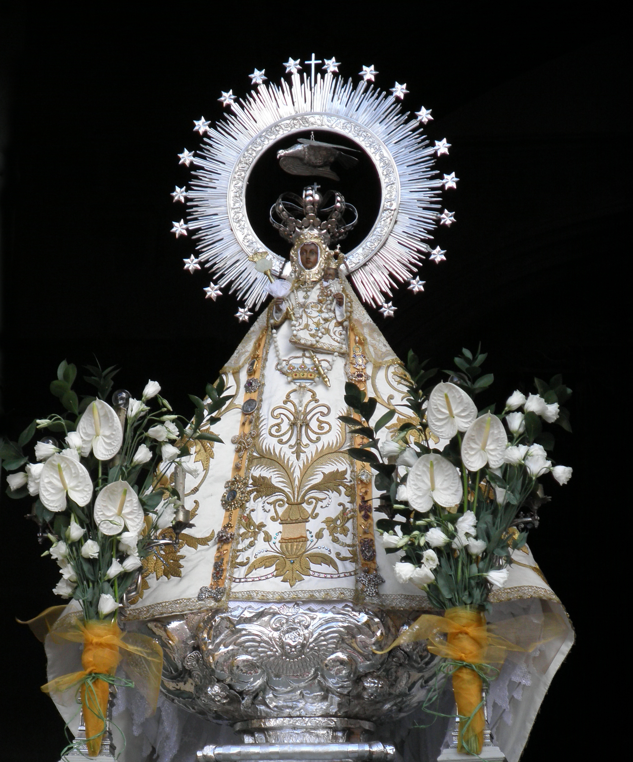 Soterraña Virgin image, in Santa María la Real de Nieva, Spain.